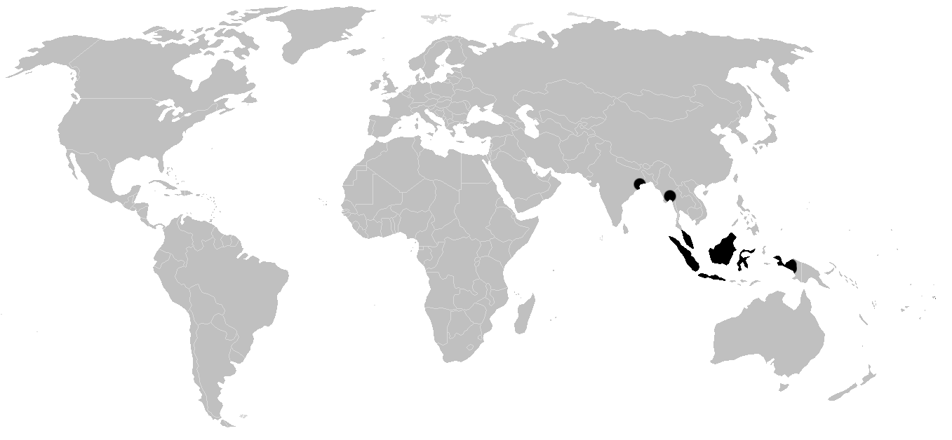 World distribution of harvestman family Stylocellidae, after Pinto-da-Rocha et al. 2007: 79.